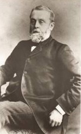 Picture of William Heap